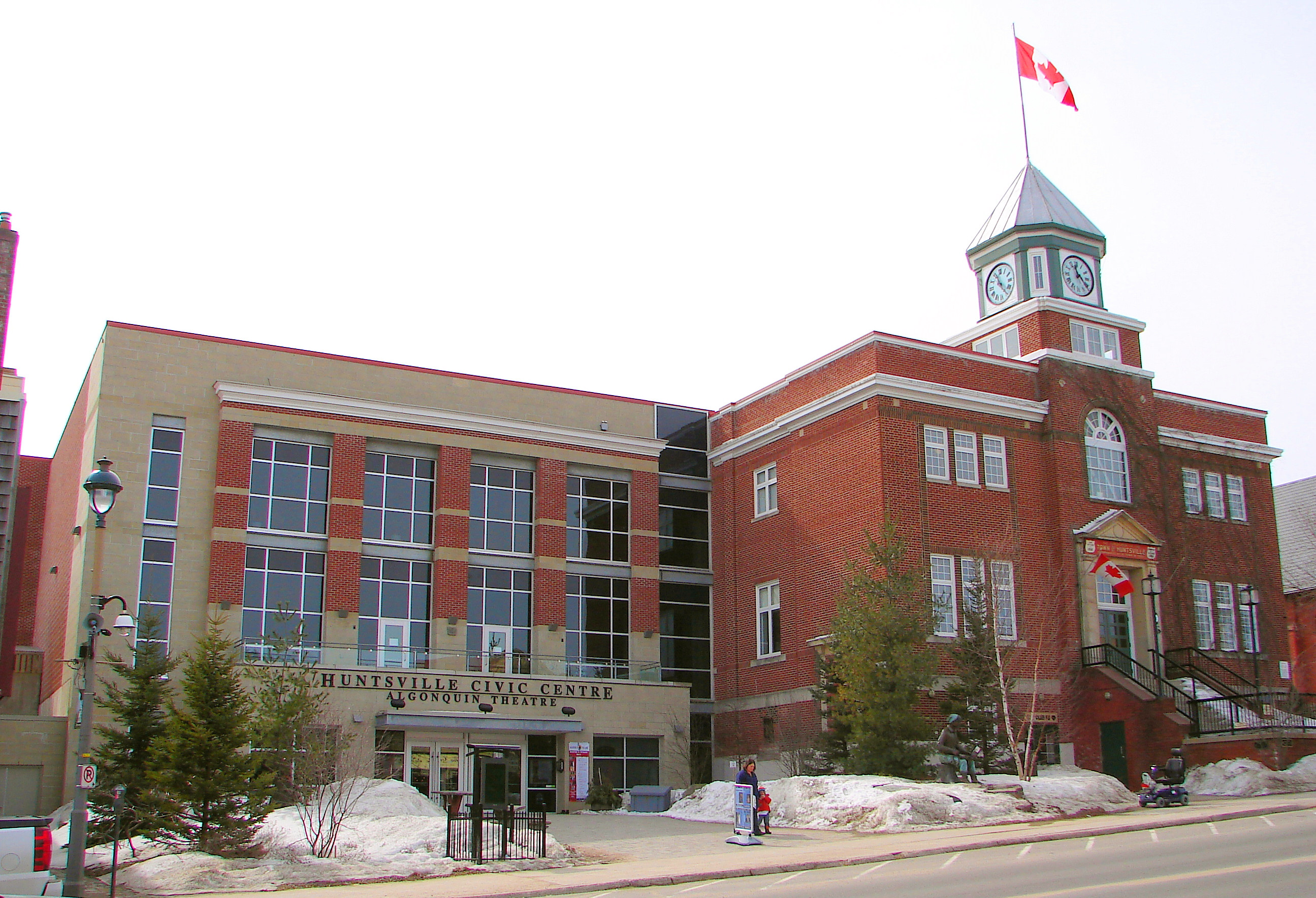 Huntsville Town Hall and Civic Centre, Ontario, Canada